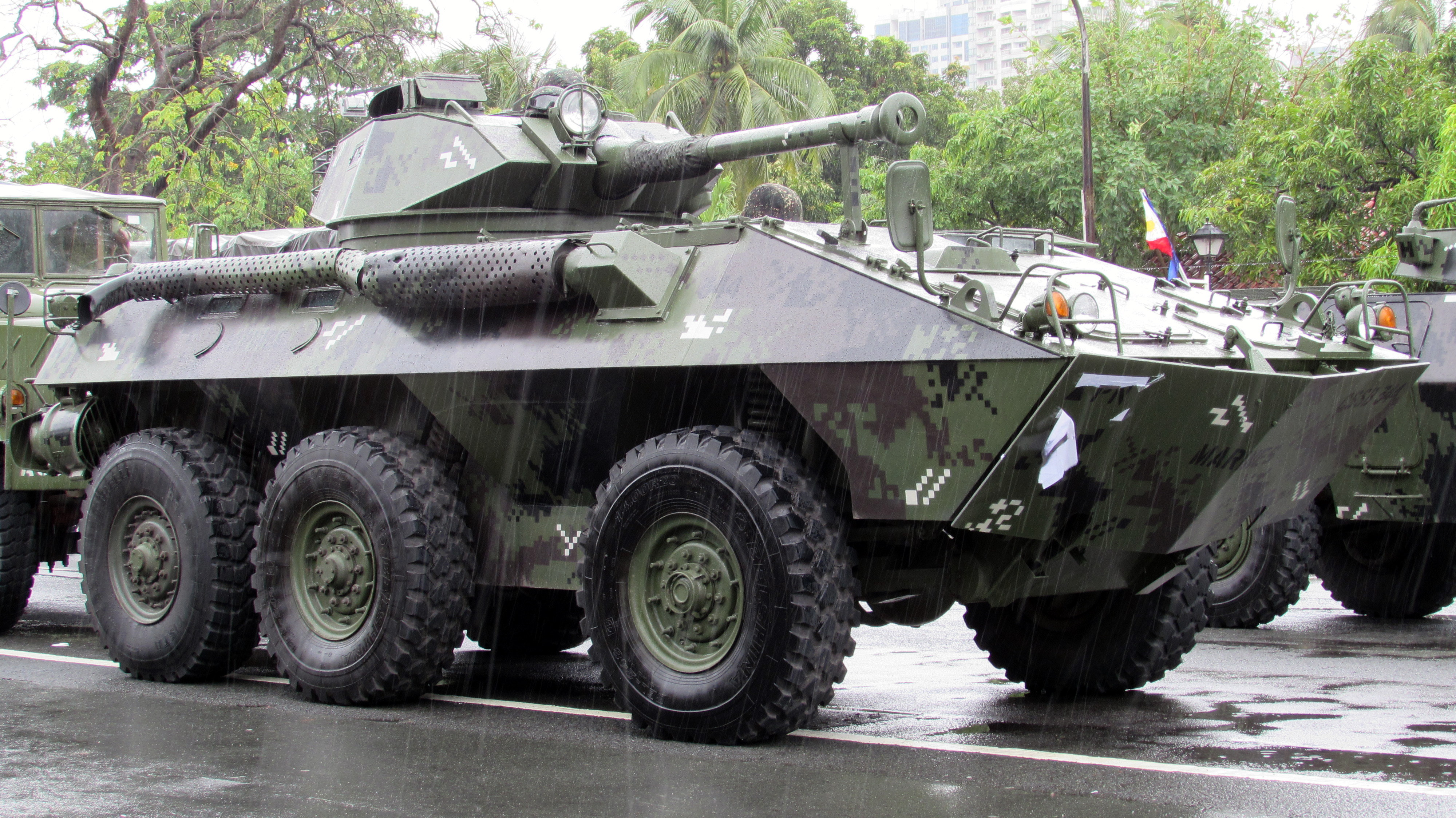 A LAV-300 vehicle of the Philippine Marine Corps (PMC). Photo taken during the 2018 Kalayaan Parade in Luneta.